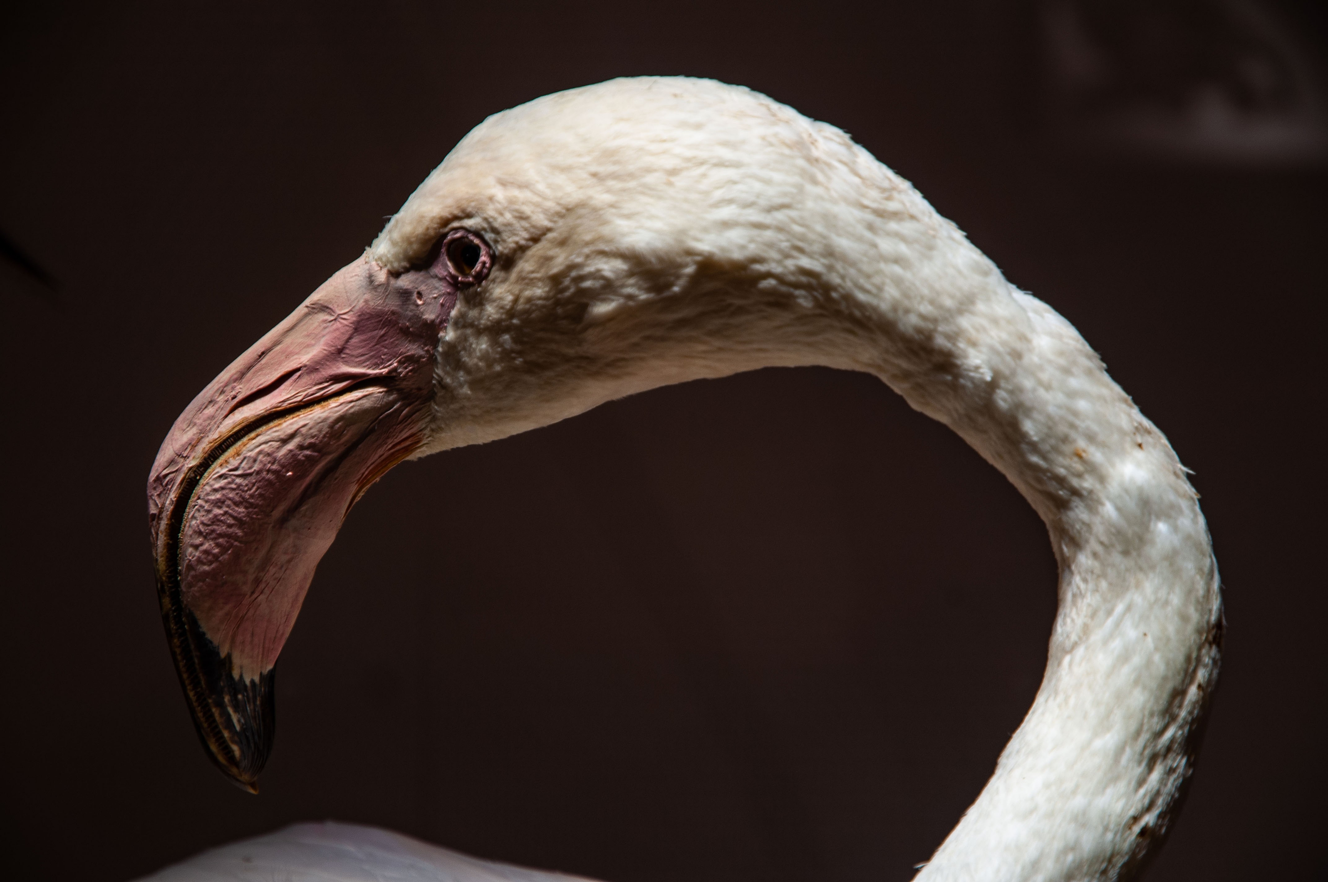 Specimen belonging to the naturalist collections of the Oceanographic Museum of Monaco.